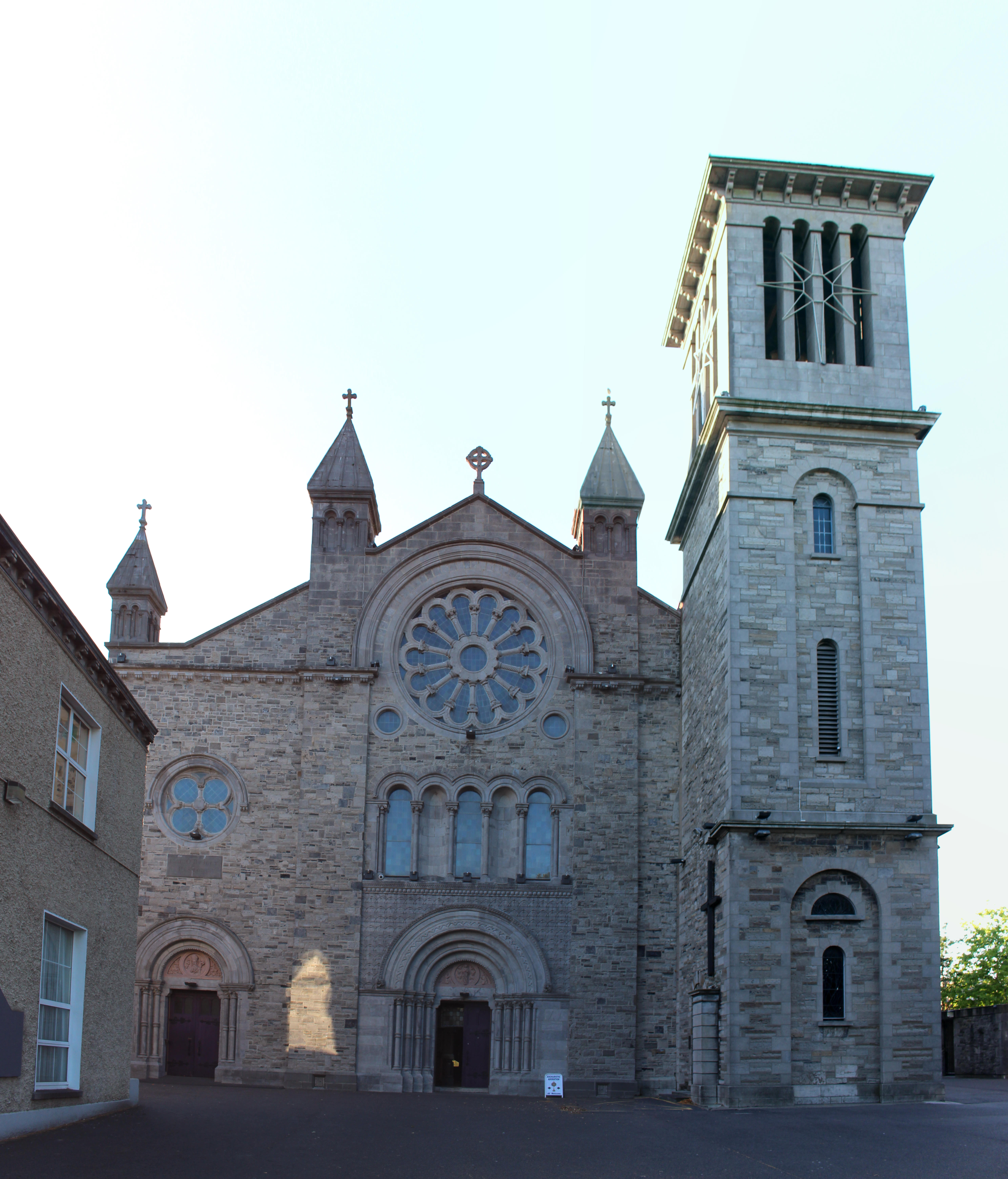 County Meath, St Mary's Church. Wikidata has entry Q55047481 with data related to this item.